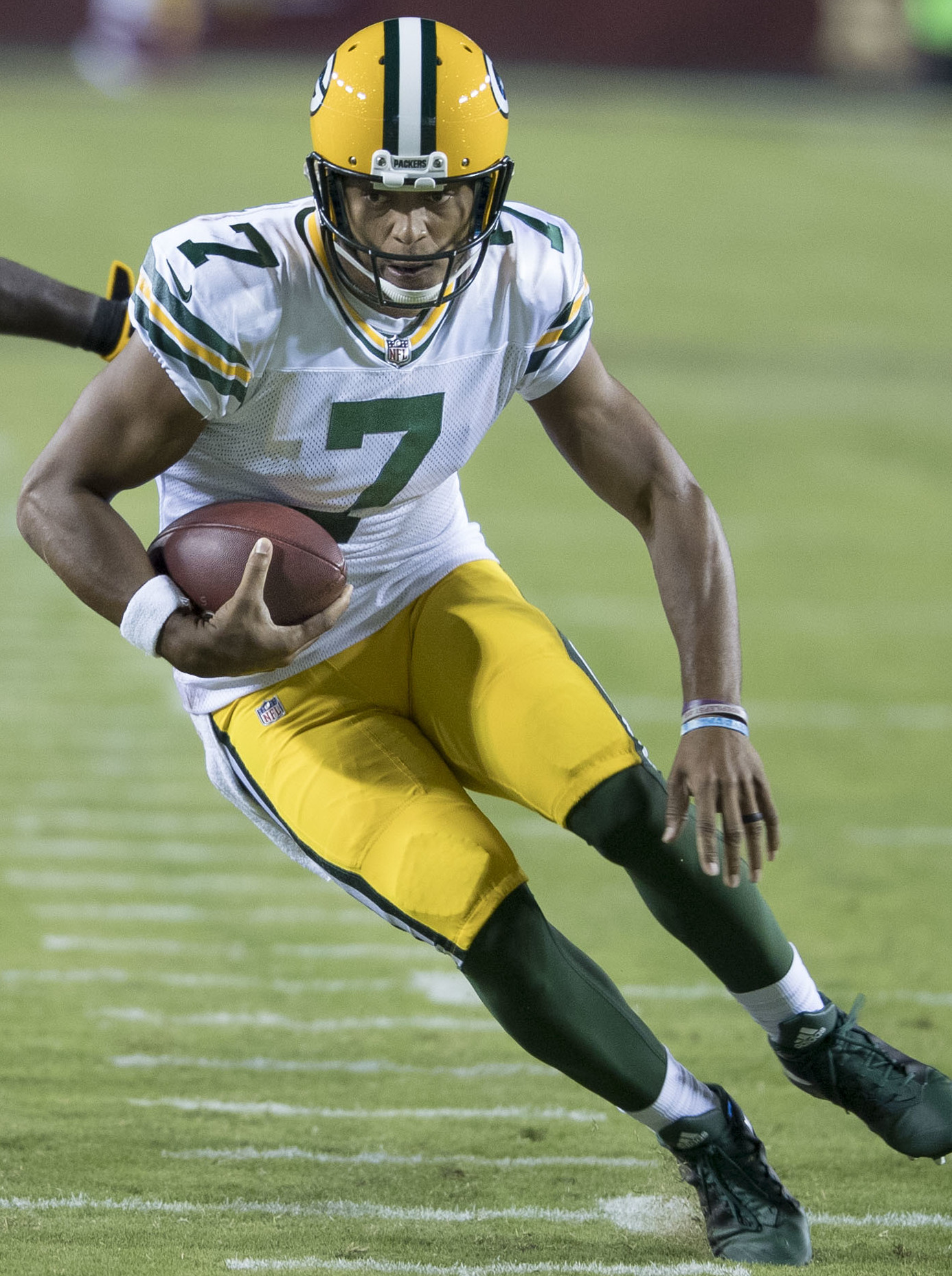 Quarterback Brett Hundley of the Green Bay Packers runs against the Washington Redskins during a preseason game at FedExField on August 19, 2017 in Landover, Maryland.